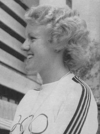 1976 Press Photo Kip Keino and Dianne Zorn